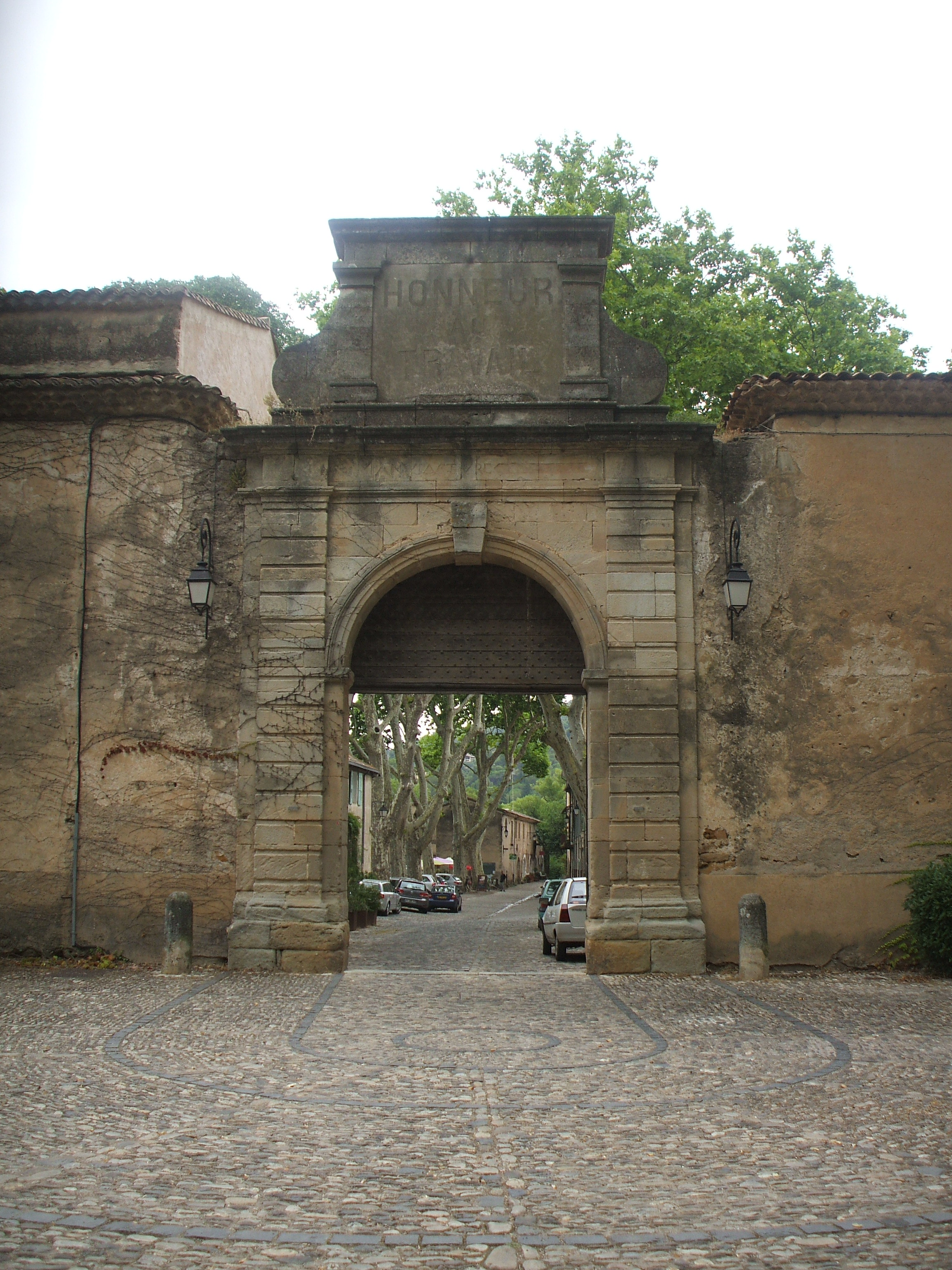 R Carden, 2011, the gateway to the village of Villeneuvette, France. .